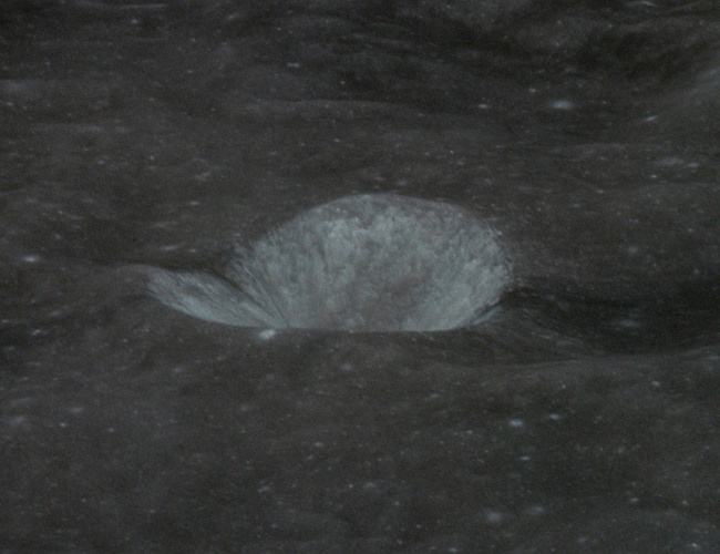 Oblique view Beaumont D crater, on the moon. Facing southwest.